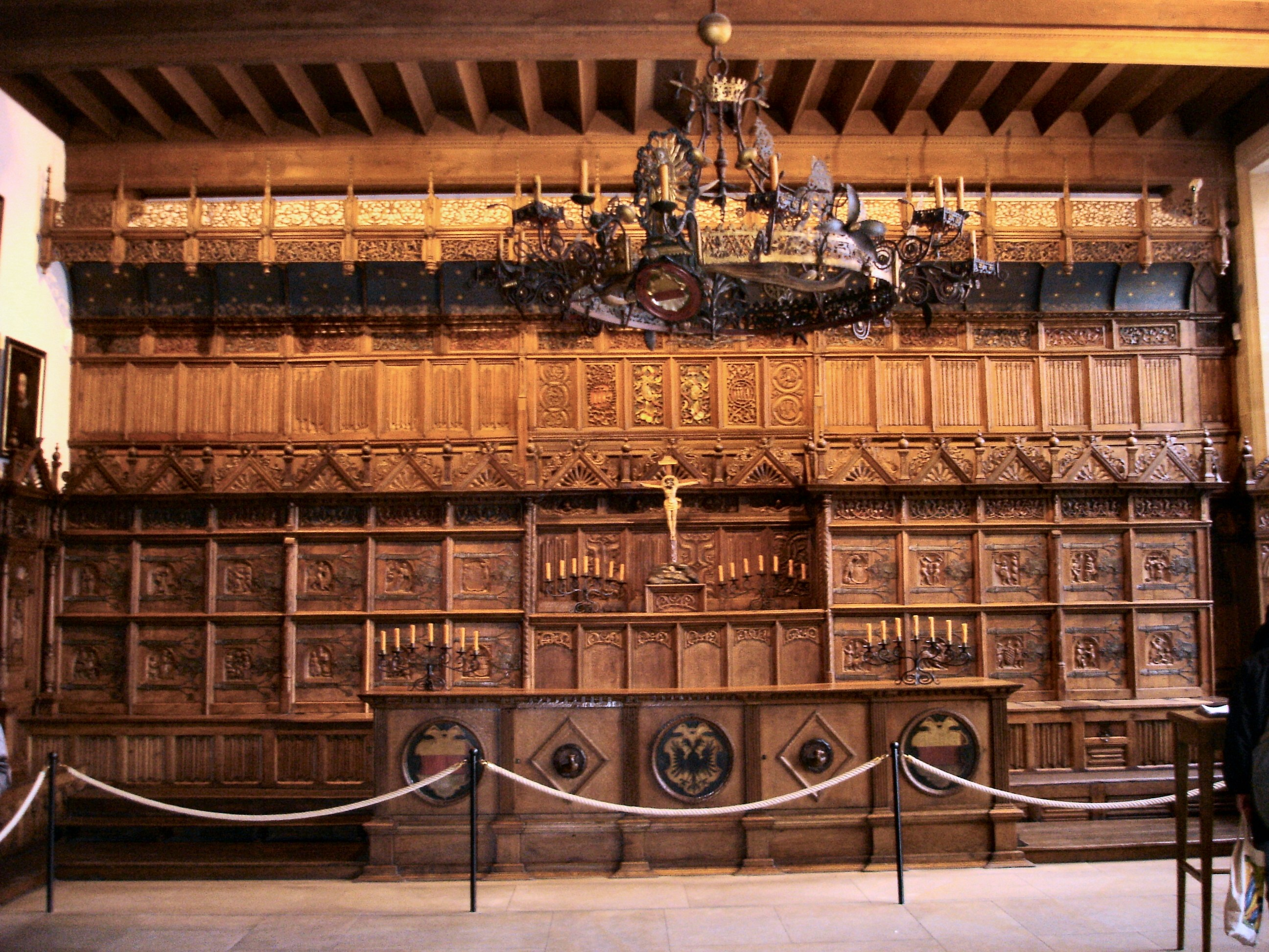 Front wall of the "Friedenssaal" in the historical city hall in Münster, Westphalia, Germany